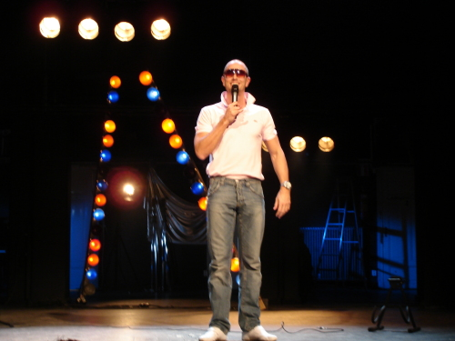 Lennart Bång with the text "Players"